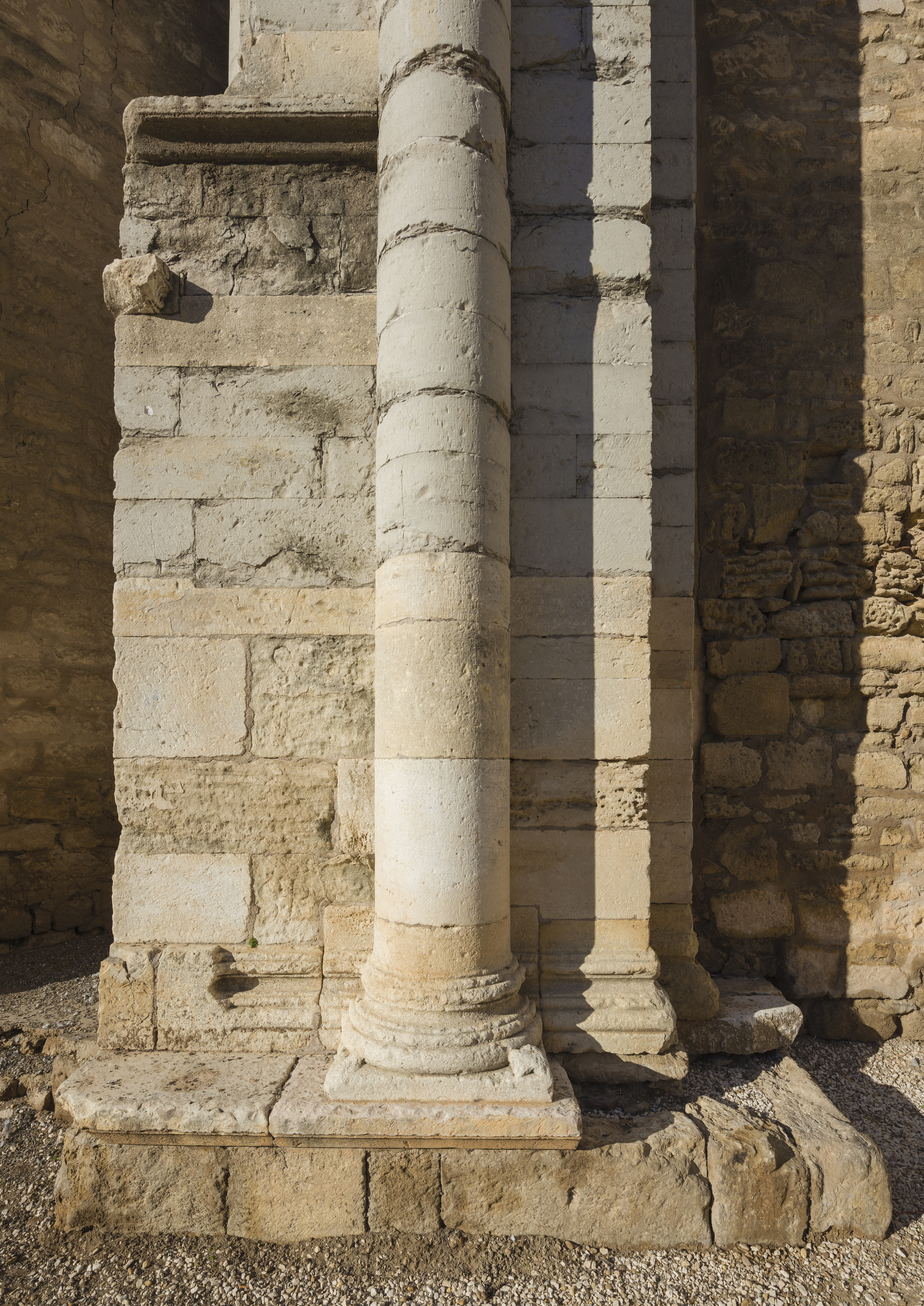 Abbey of Saint-Gilles, Saint-Gilles, Gard, France. . This place is a UNESCO World Heritage Site, listed as Chemins de Saint-Jacques-de-Compostelle : Ancienne abbatiale, Saint-Gilles-du-Gard, sous le n° 868-034.